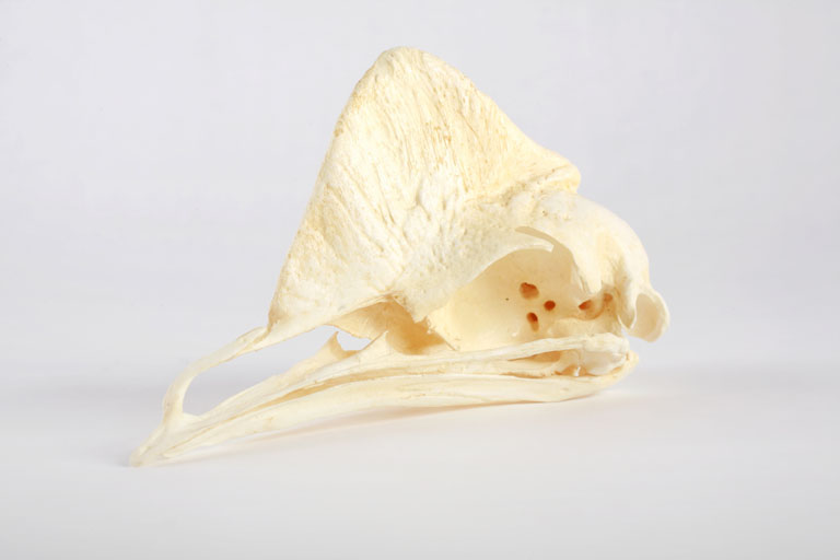 A Cassowary skull cast in the permanent collection of The Children’s Museum of Indianapolis.